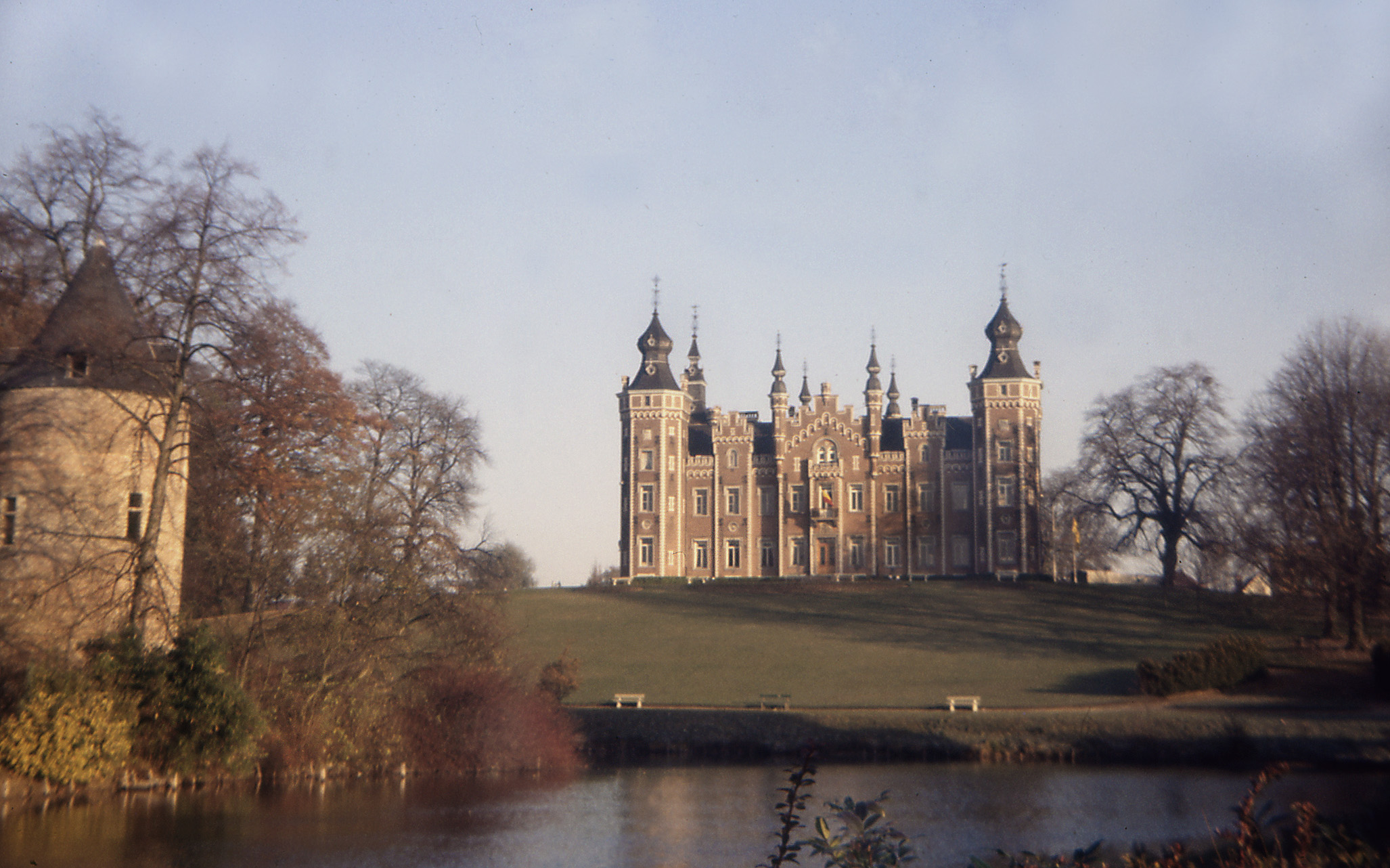 Dilbeek, De Viron Castle. Town Hall